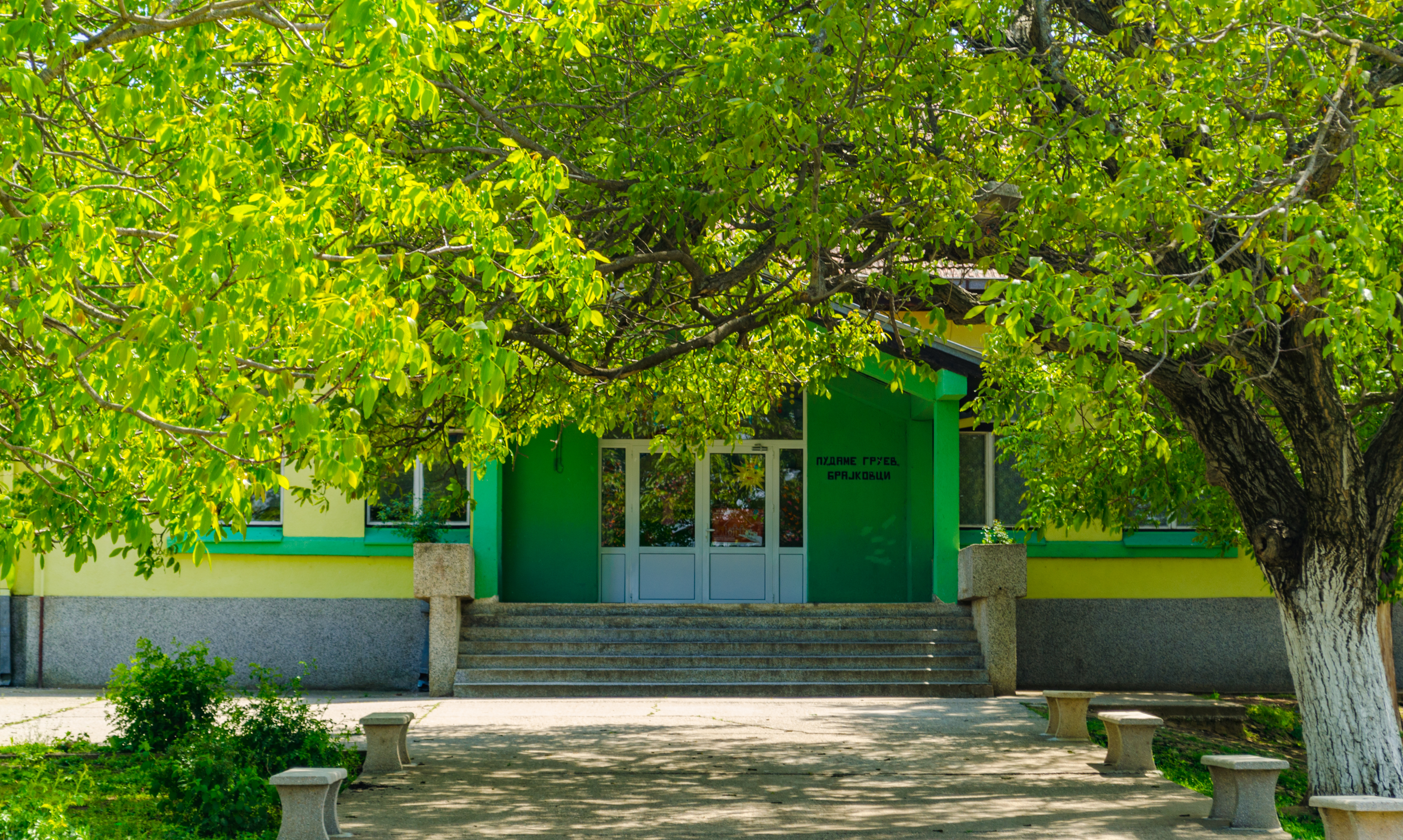 View of the primary school in the village Brajkovci